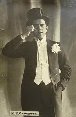 "Le Roi de Excentrique" - russian poet, composer, chansonnier Mikhail Savoiarov (postcard ~ 1912)